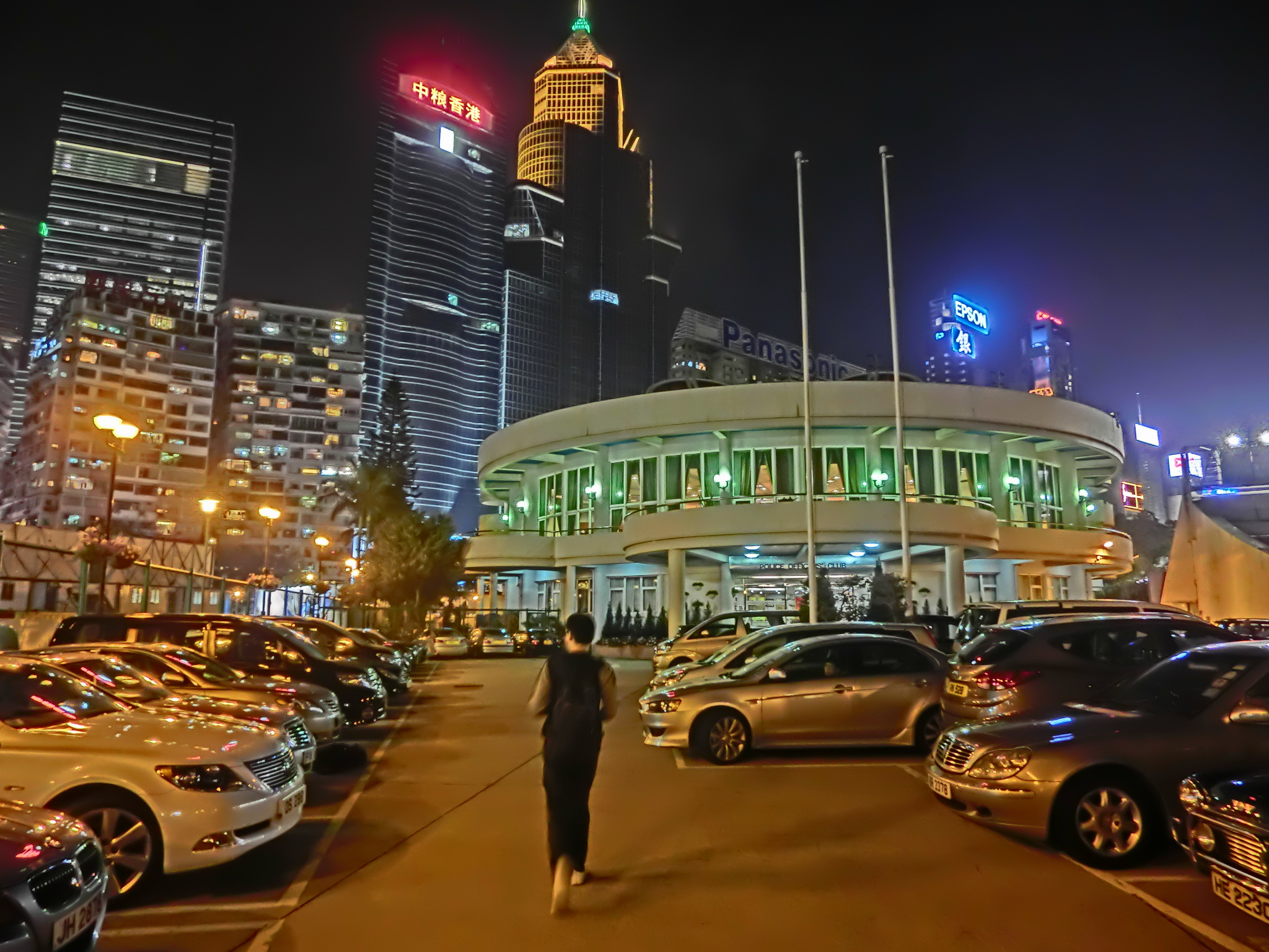 警官俱樂部, Polic Officers' Club, Gloucester Road, Causeway Bay, Hong Kong